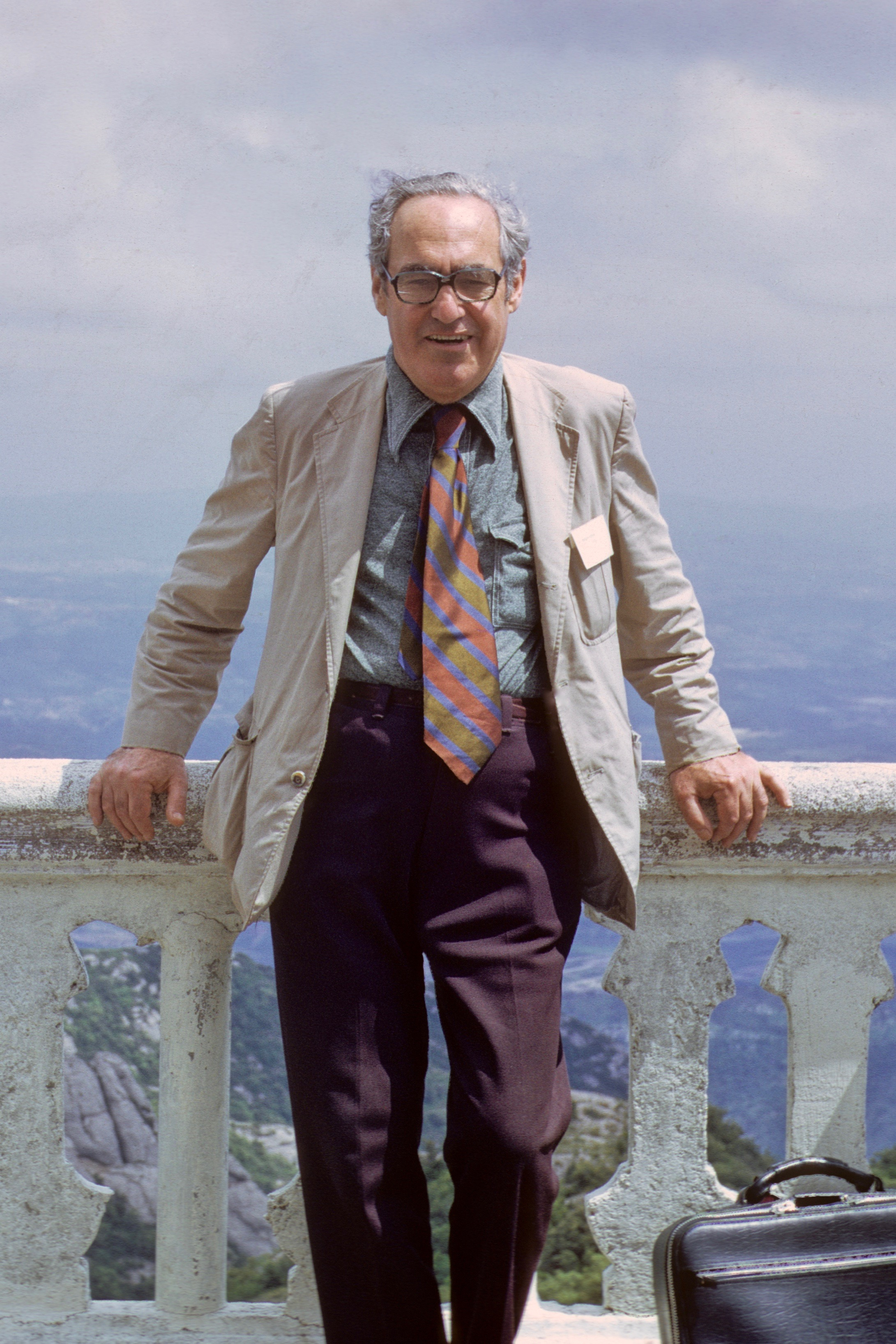 Herbert Spencer Ratner, smiling, wearing sports jacket & necktie, standing in front of a low stone railing, with Montserrat in background